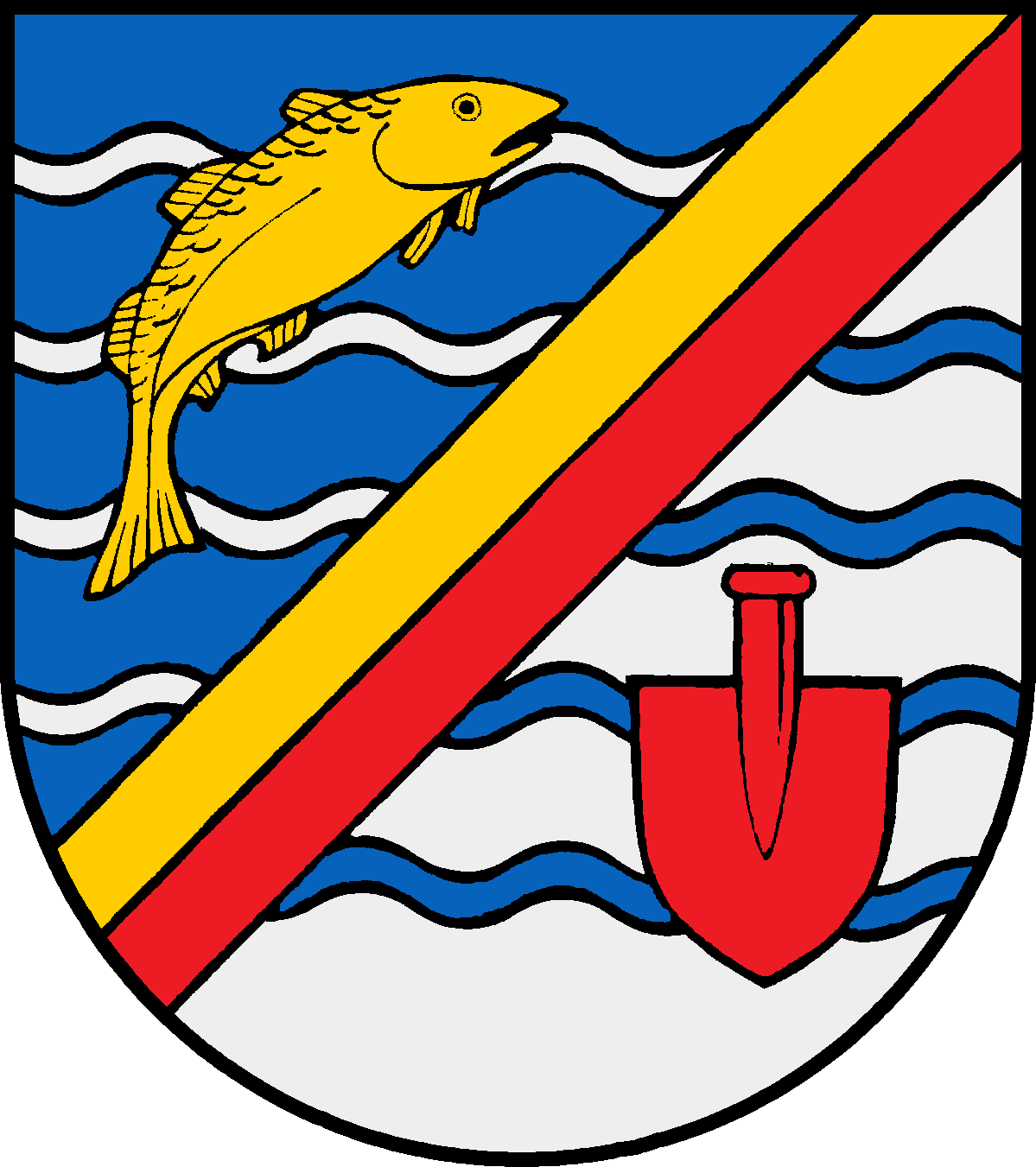 Coat of arms of the municipality Wendtorf in Schleswig-Holstein, Germany.